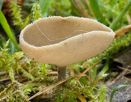 Helvella macropus (Pers.) P. Karst. Location: Spodnja Idrija Region, GoriÅ¡ko, Slovenia Observation Notes: Code: Bot_462/2010_IMG2584 Habitat: extensively used grassland, flat terrain, on overgrown river deposits terrace, humid air place, full sun, exposed to direct rain, average precipitations 2.000-2.600 mm/year, average temperature 8-10 deg C, elevation 320 m (1.000 feet), borderline between prealpine and Dinaric phytogeographical region. Substratum: rich soil Place: Near confluence of rivers Idrijca and GaÄ%uFFFDnik, right bank of river Idrijca, close to Spodnja Idrija town, GoriÅ¡ka, Slovenia EC For more information about this, see the observation page at Mushroom Observer.